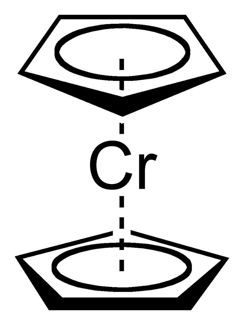 Skeletal formula of the chromocene molecule, Cp2Cr i.e. C10H10Cr